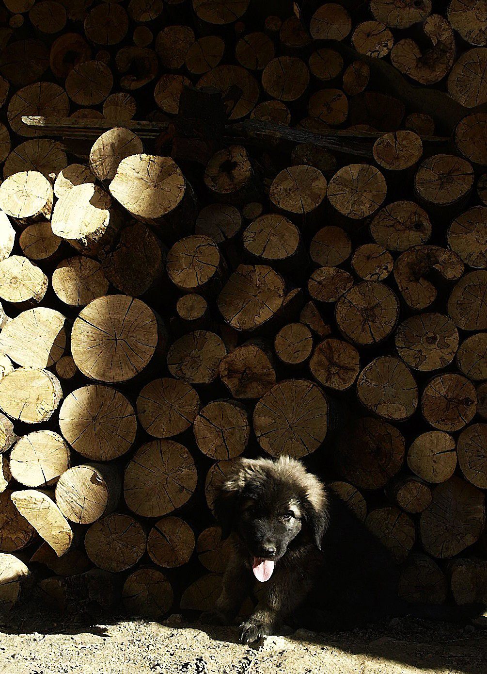 Mali sarplaninac, Sevce opstina Strpce